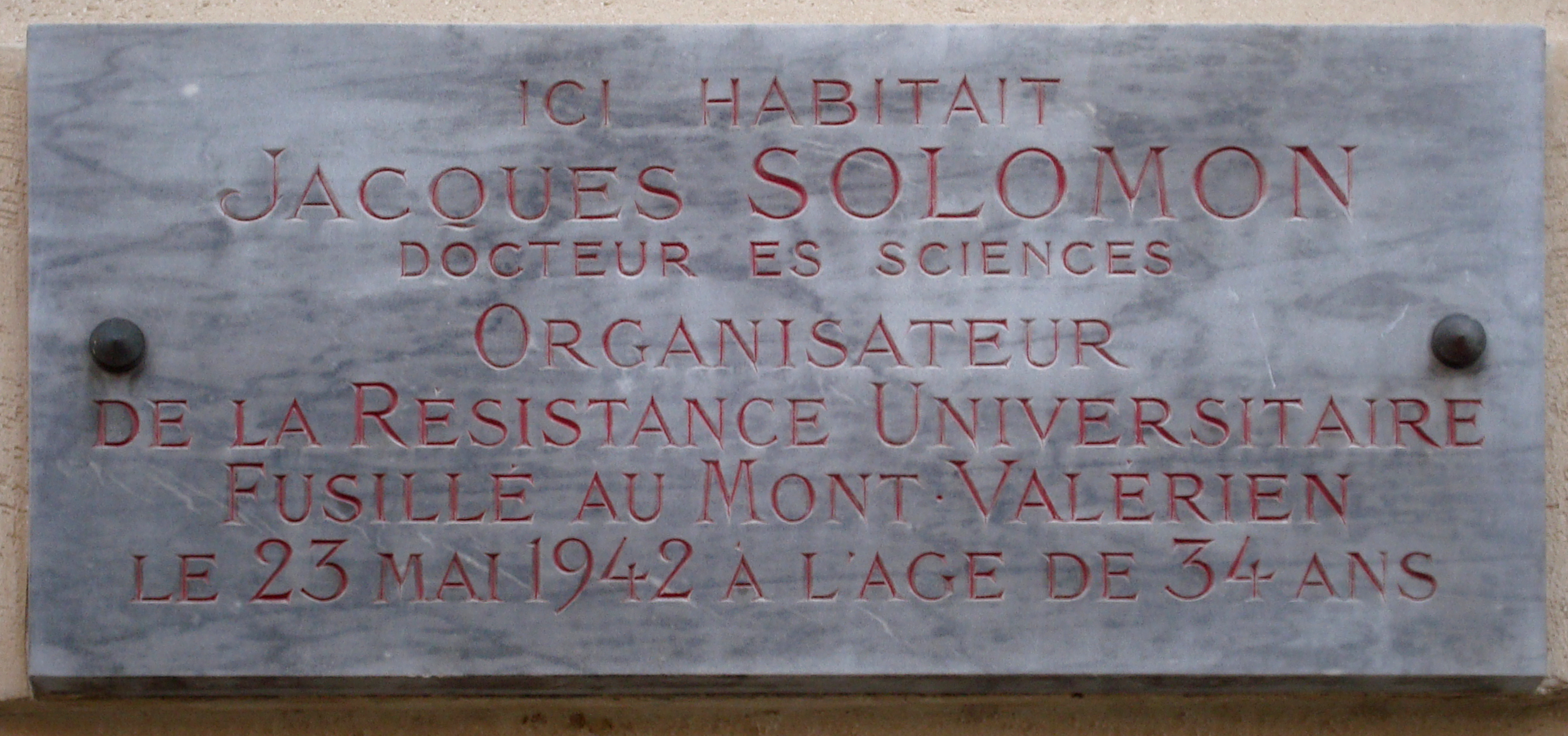 The plaque on the building at 3, rue Vauquelin, which commemorates the place where the physician and resistant Jacques Solomon lived until May 23rd 1942 when executed as an hostage by German occupants at the Mont Valérien